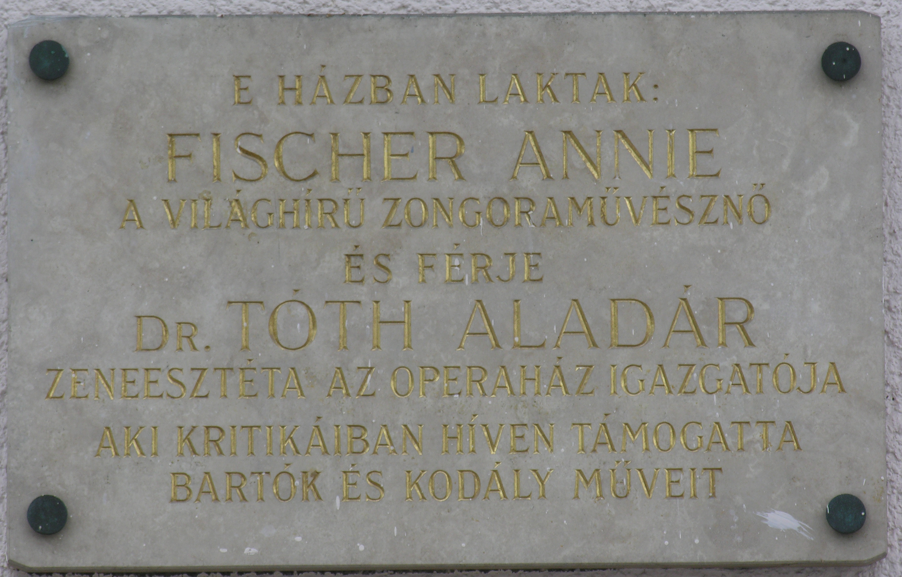 Commemorative plaque of Annie Fischer and Aladár Tóth in Budapest District XIII, Szent István Park No 14